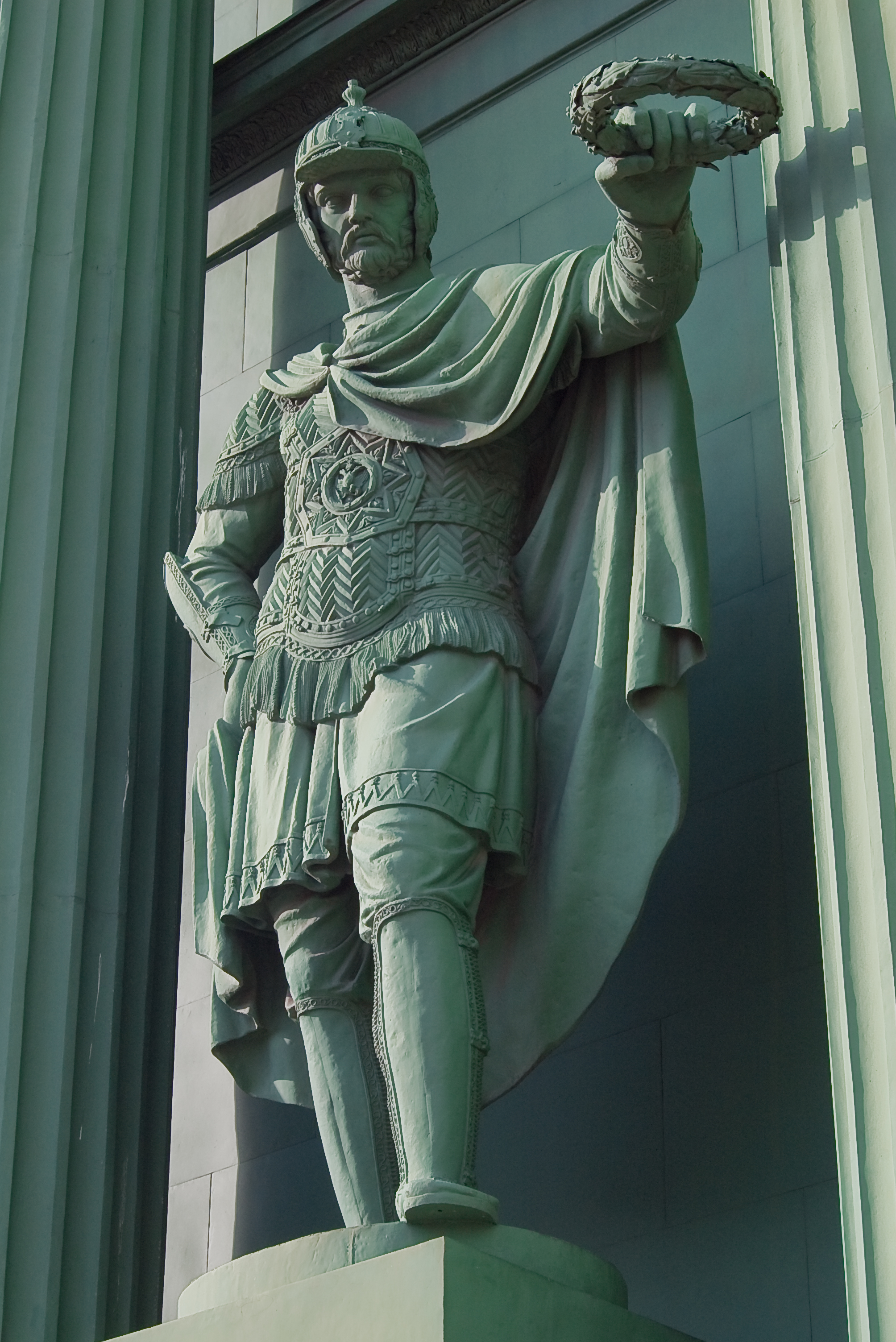 Narva Triumphal Gate.